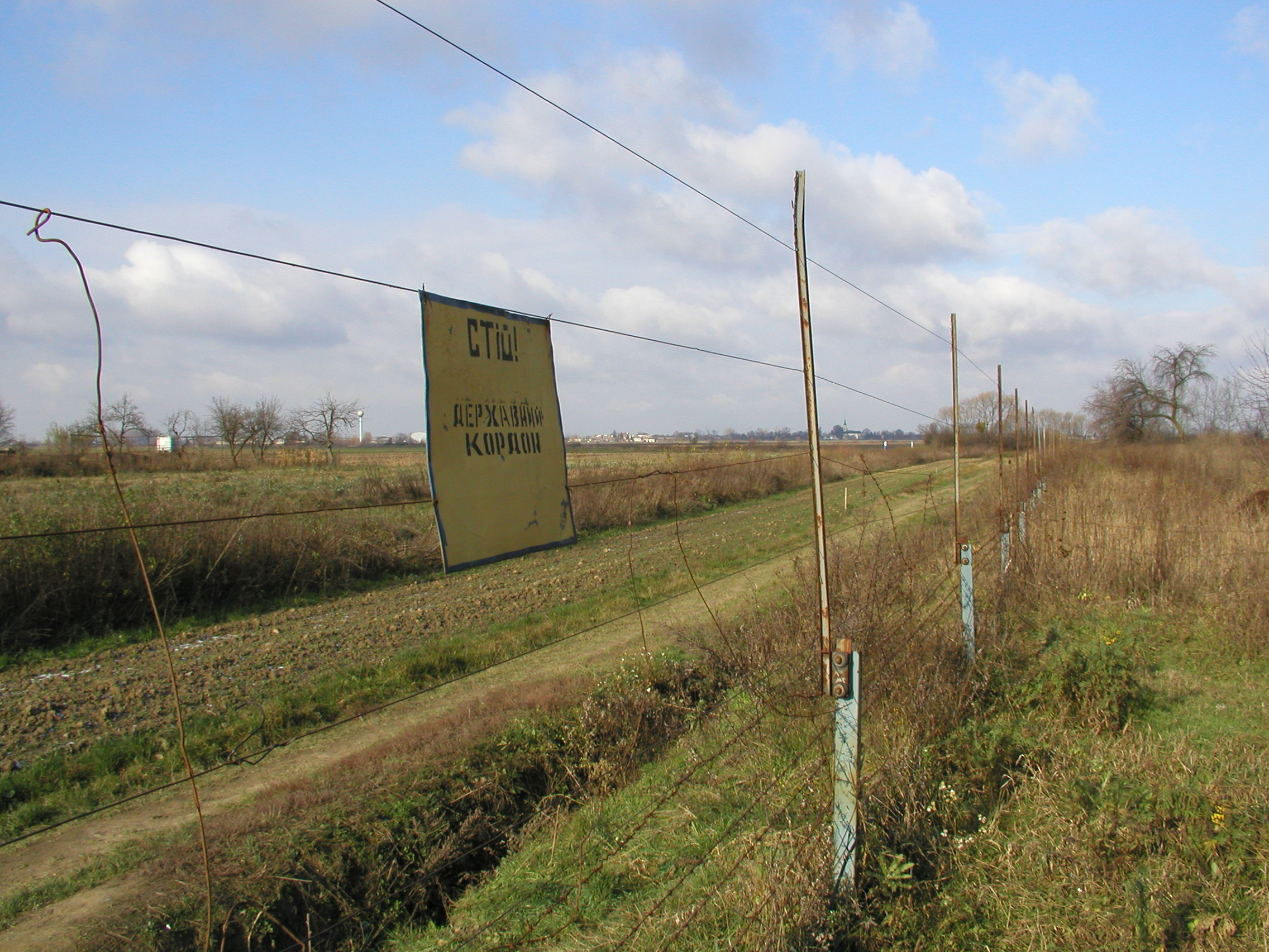 Slovakian-Ukrainian state border (a view from Ukrainian territory)